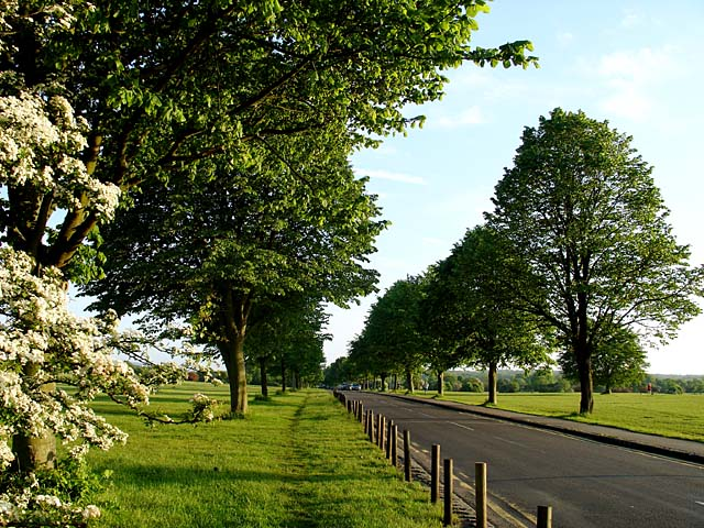 Ladies Mile Ladies Mile may have been named after ladies of the night touting for business along here in Victorian times. The trees along Ladies Miles are now mostly Lime trees planted after the Elms were destroyed by Dutch Elm disease.